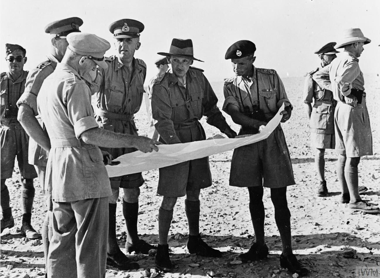 The British Army in North Africa 1942 Lieutenant General Montgomery, the new commander of 8th Army, discussing troop dispositions at 22nd Armoured Brigade headquarters, 20 August 1942. The brigade commander, Brigadier 'Pip' Roberts is on the right (in beret).